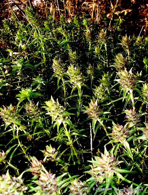 نباتات برّية سورية تؤكل